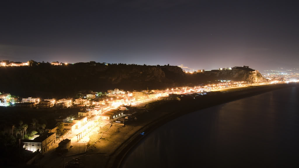 Milazzo